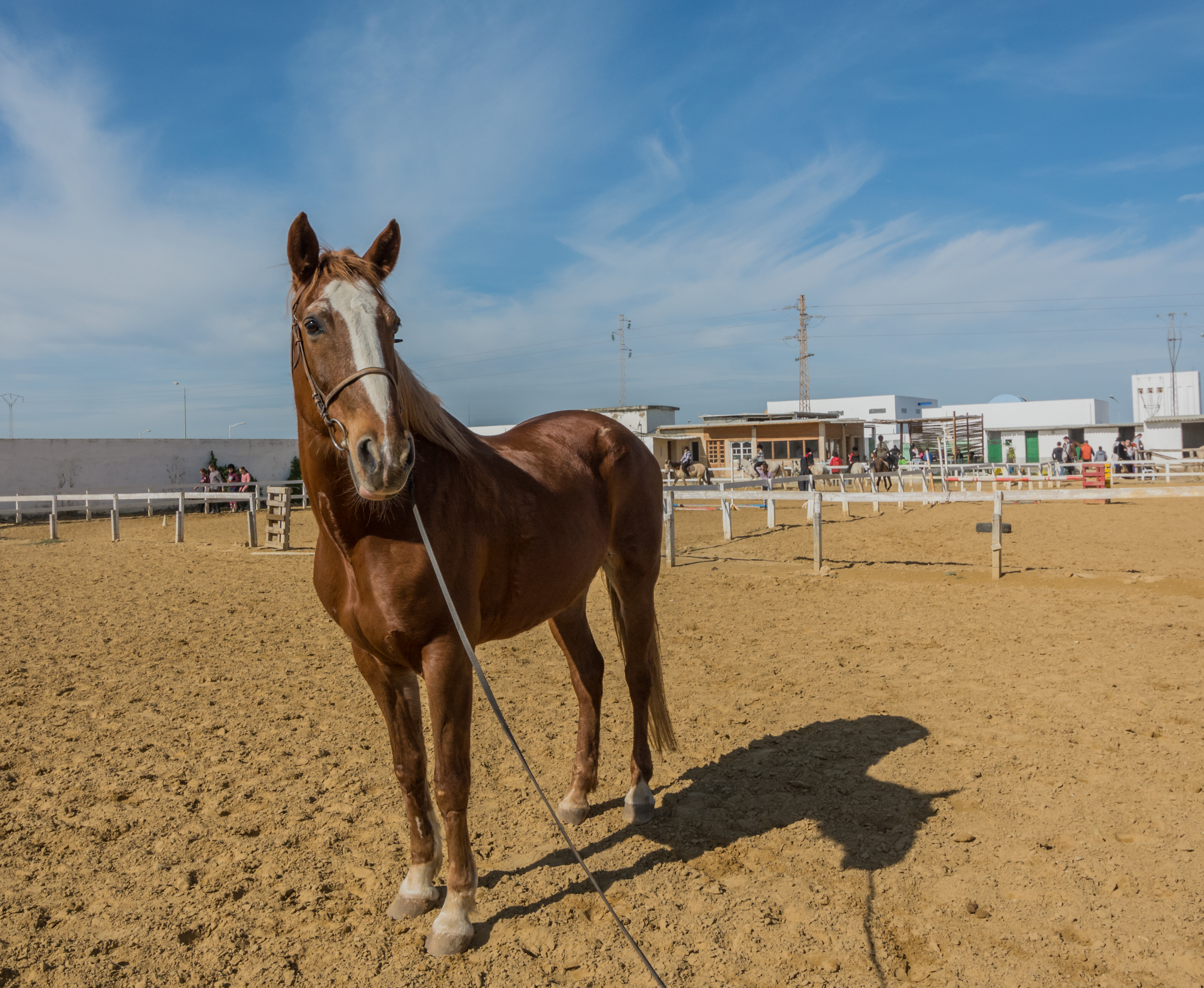 A female Barbe Horse : its name is "Defia" which mean warm in arabic. Property of Laguna Equestrian Club in La Soukra, Tunis, Tunisia